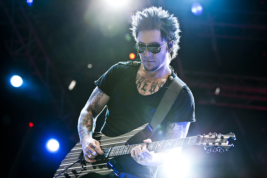 Synyster Gates of Avenged Sevenfold, live in Bergen, Norway - 2011